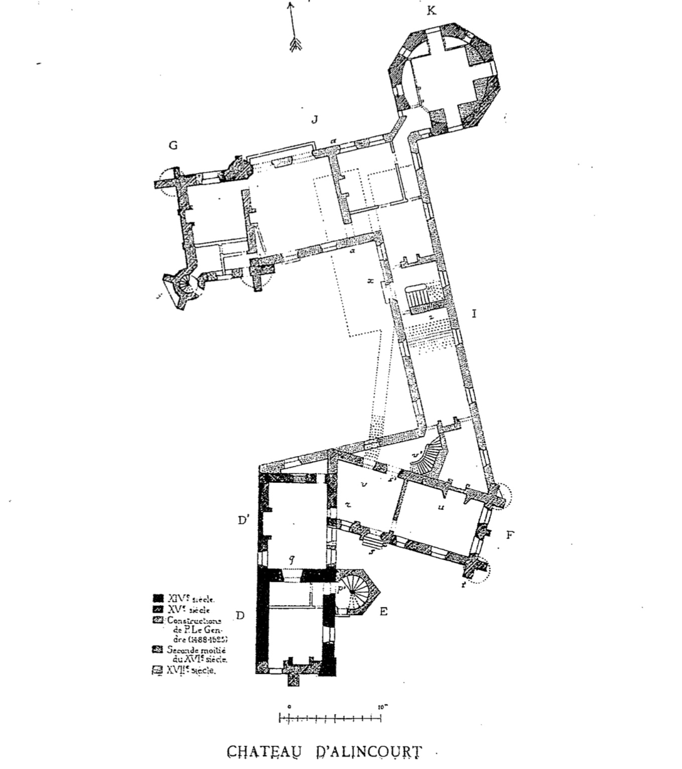 Castle of Alincourt